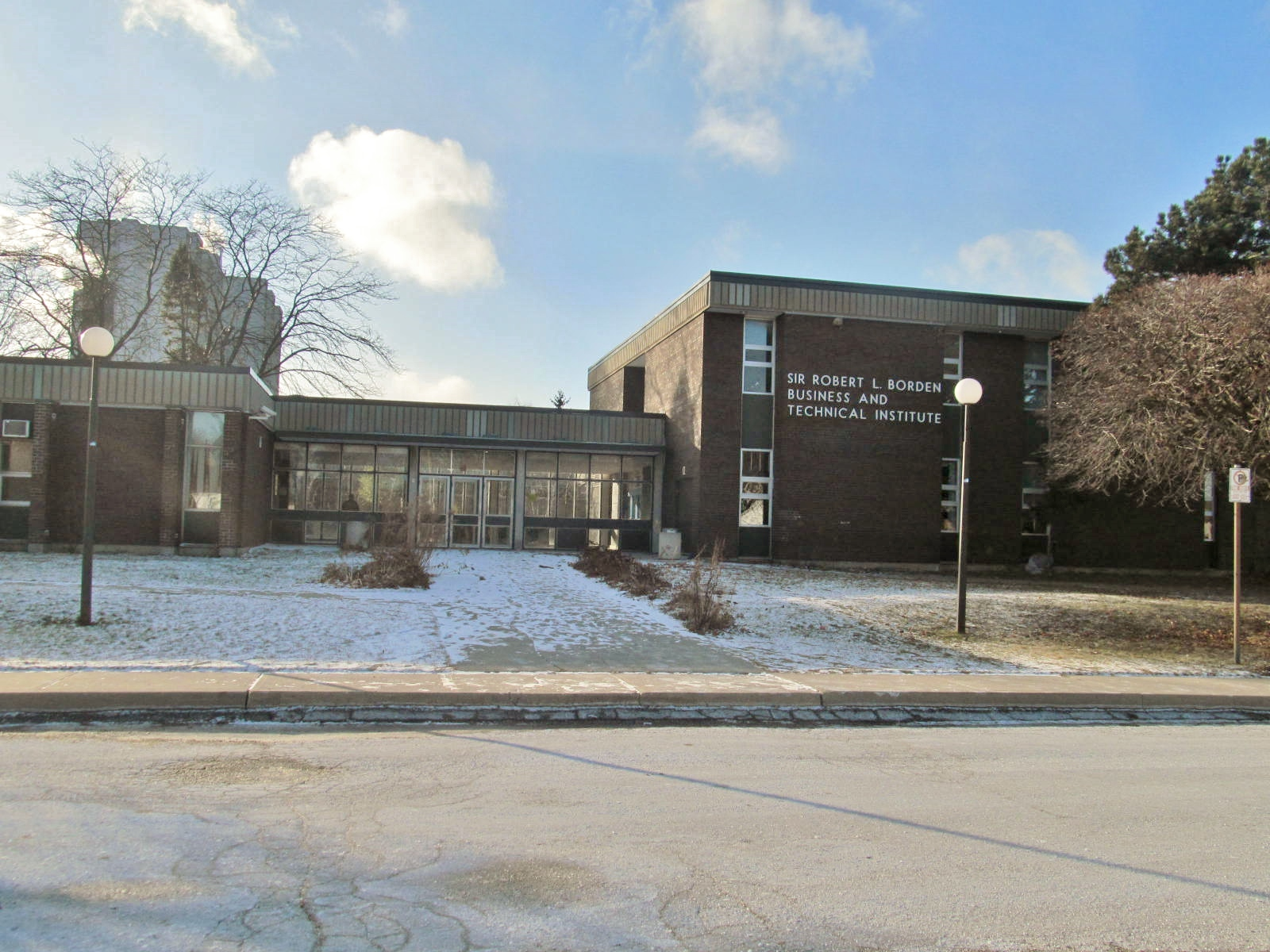 A view of Sir Robert L. Borden Business and Technical Institute on a cold January 2015.